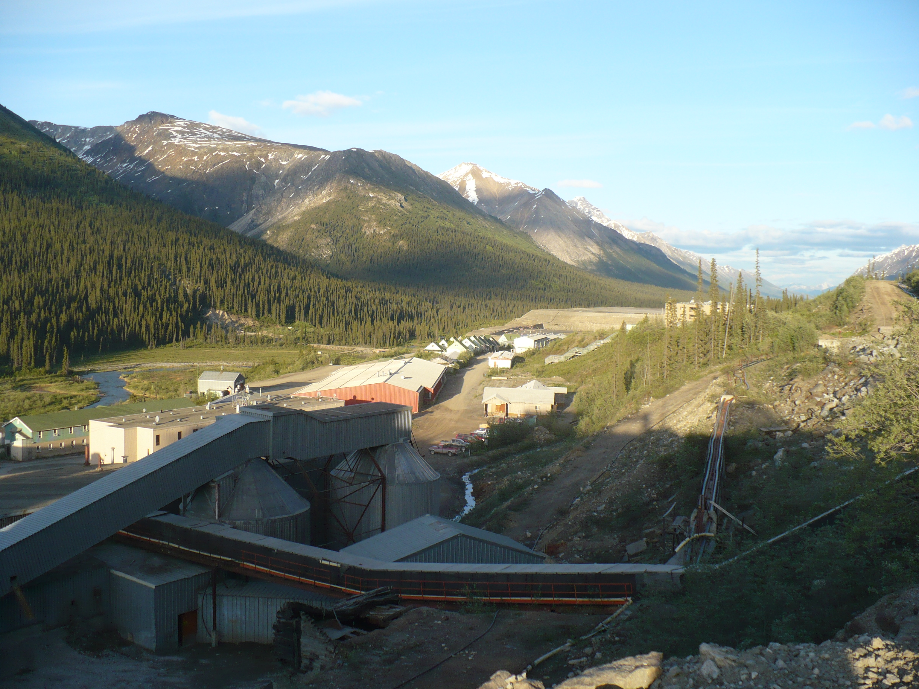 Tungsten townsite and mine buildings. All small houses are now abandoned. Mine workers live in larger residence housing.